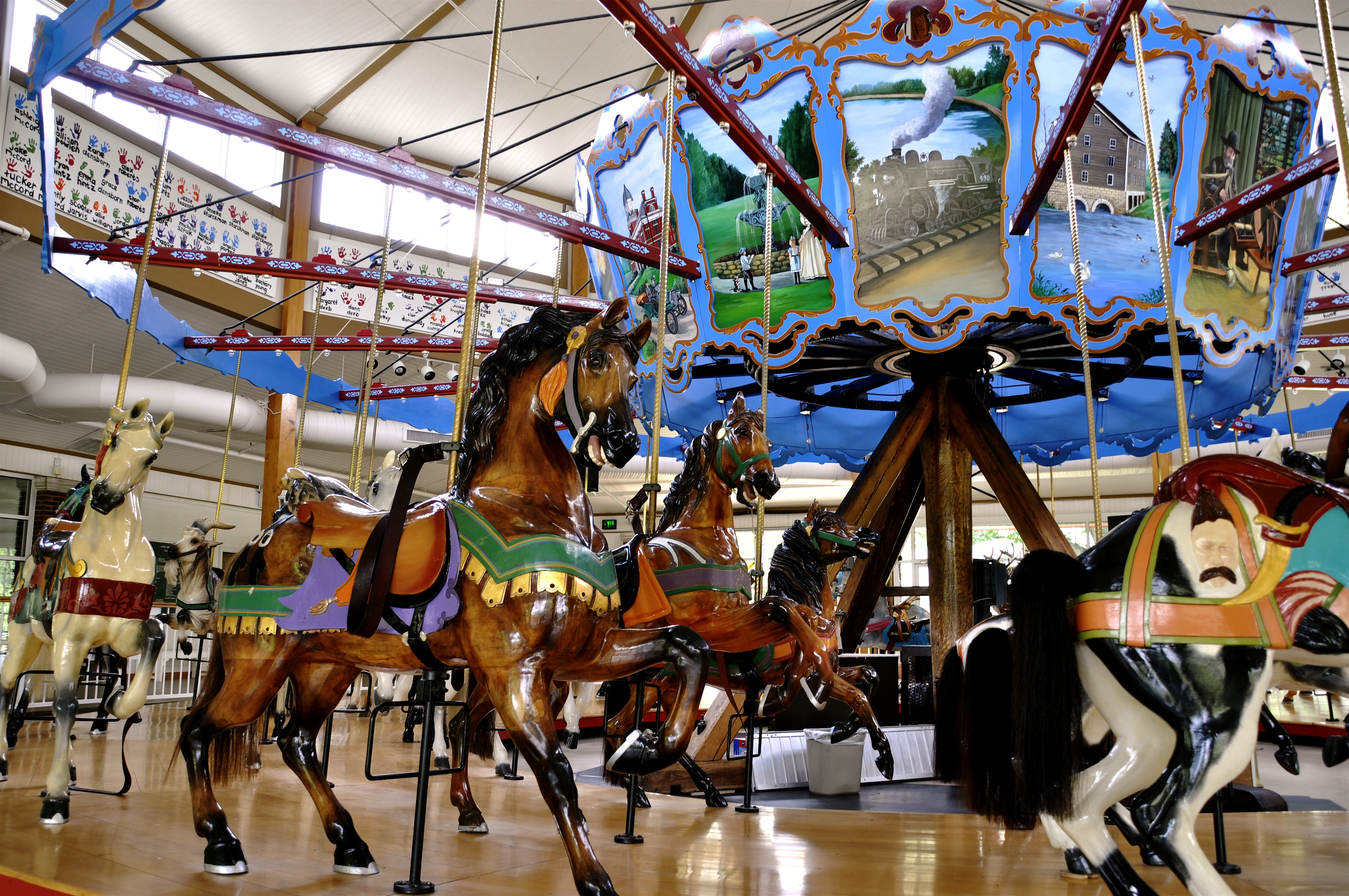 Animals on the Spencer Park Dentzel Carousel, located in Riverside Park in Logansport, Indiana, United States. Built in 1900, it has been declared a National Historic Landmark.